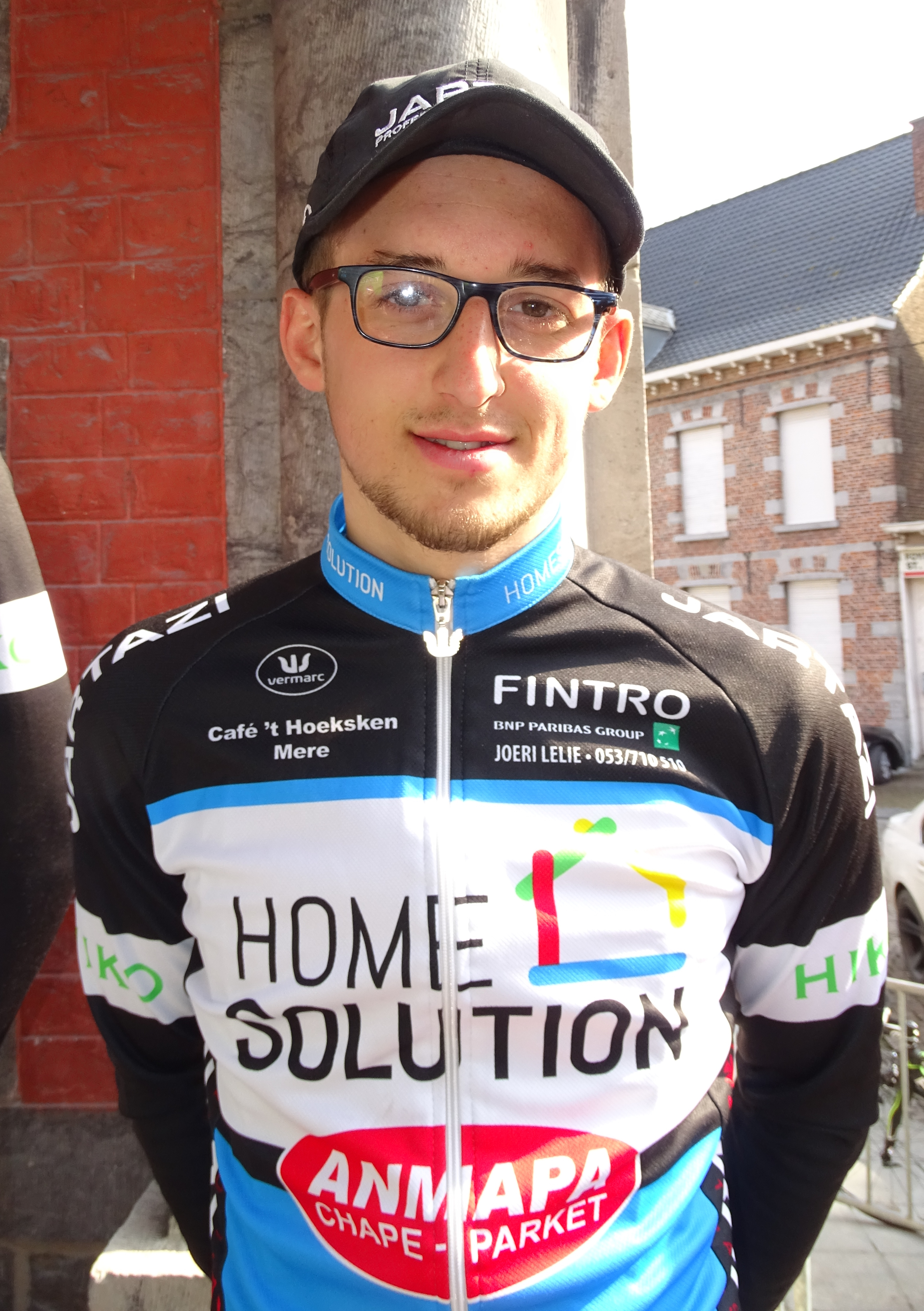 Triptyque des Monts et Châteaux 2016 Depicted person: Alfdan De Decker Depicted team: Home Solution-Anmapa-Soenens